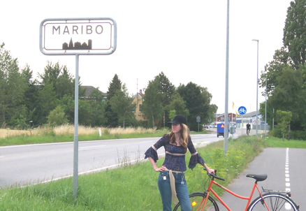 City Limits of Maribo, Lolland, Denmark A Christensen I took this picture